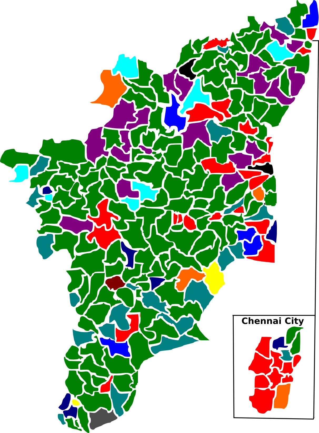 made election map using borders from ECI website using Inkscape. Results based on ECI website.